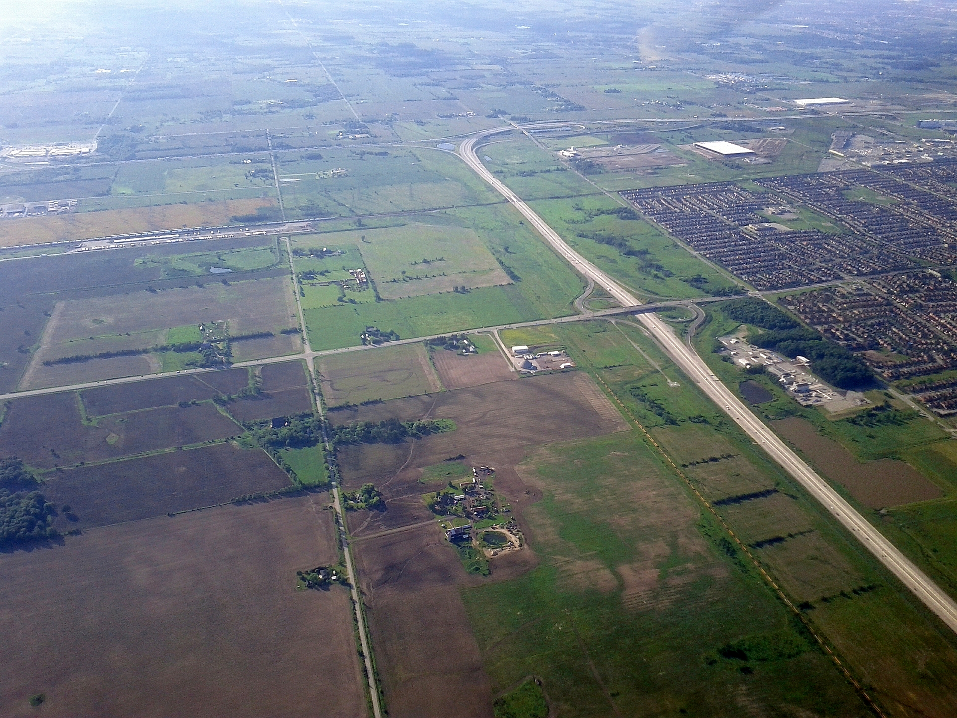 Highway 407 ETR at Derry Road with Highway 401 partial interchange in the distance